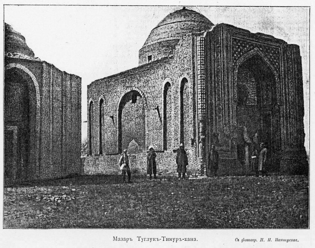 Tughlugh Timur Mausoleum (1363- ), exterior. Huocheng, Xinjiang, China